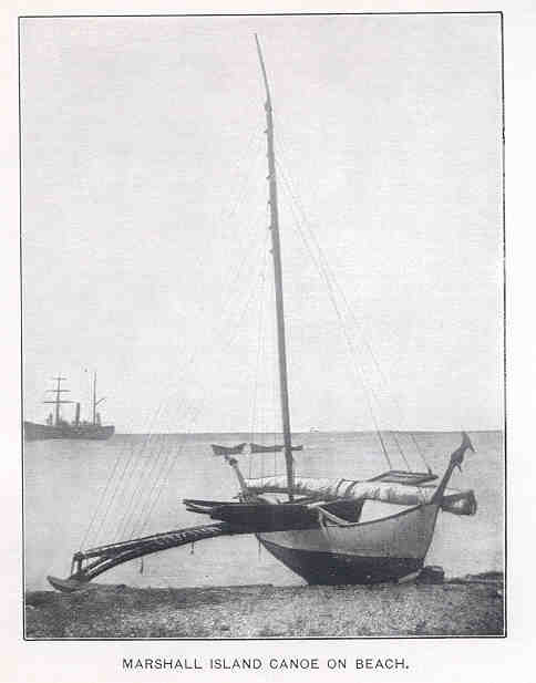 Marshall Island Canoe on Beach Subject: Canoes and canoeing Geographic Subject: Marshall Islands Tag: Traditional Fisheries, Vessels